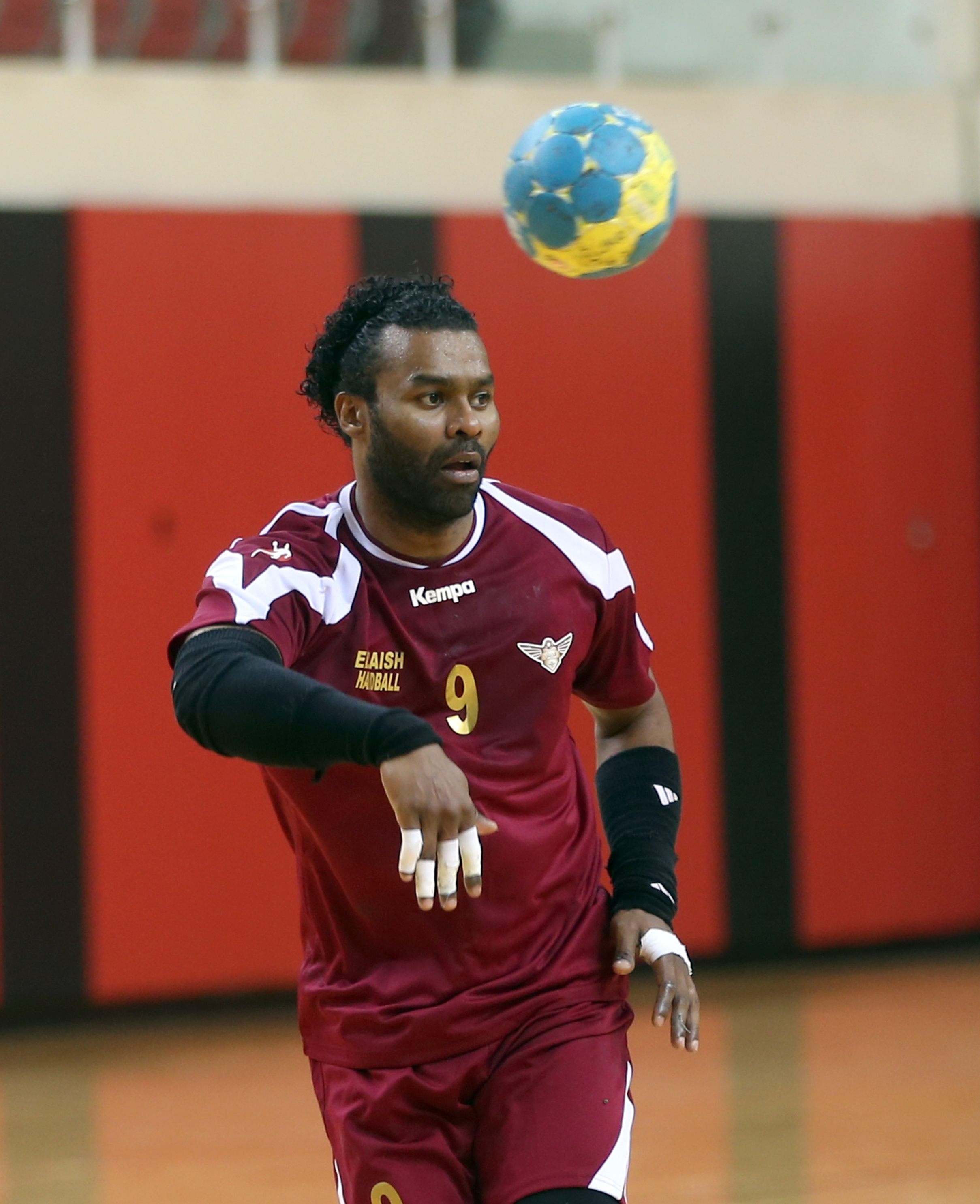 El Jaish's French professional Johan Boisedu in action during a Qatar League match. Picture by Mohan